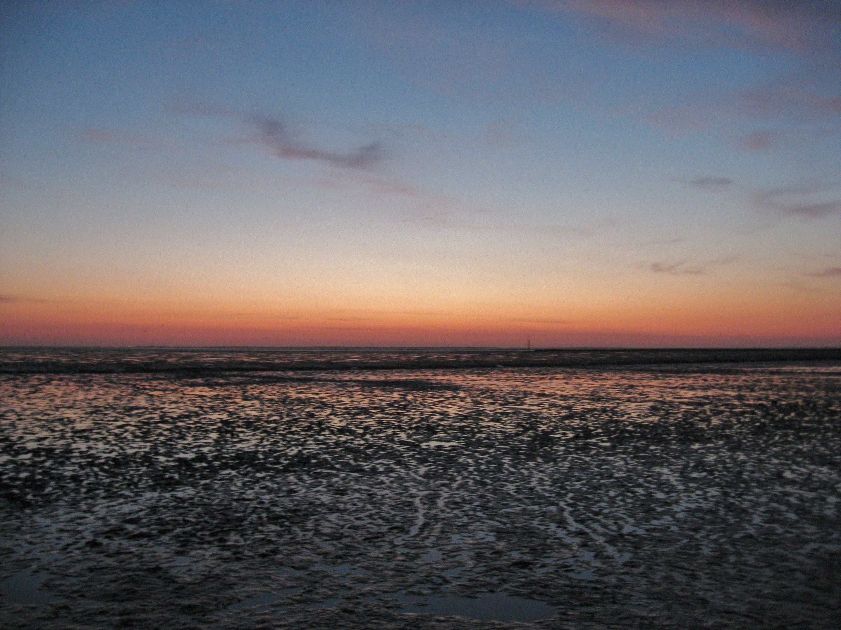 Mudflat Northsea, Norddeich